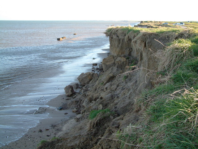 Coastal Erosion, north-east of Fraisthorpe, East Riding of Yorkshire, England.Erosion of the soft cliffs near Auburn